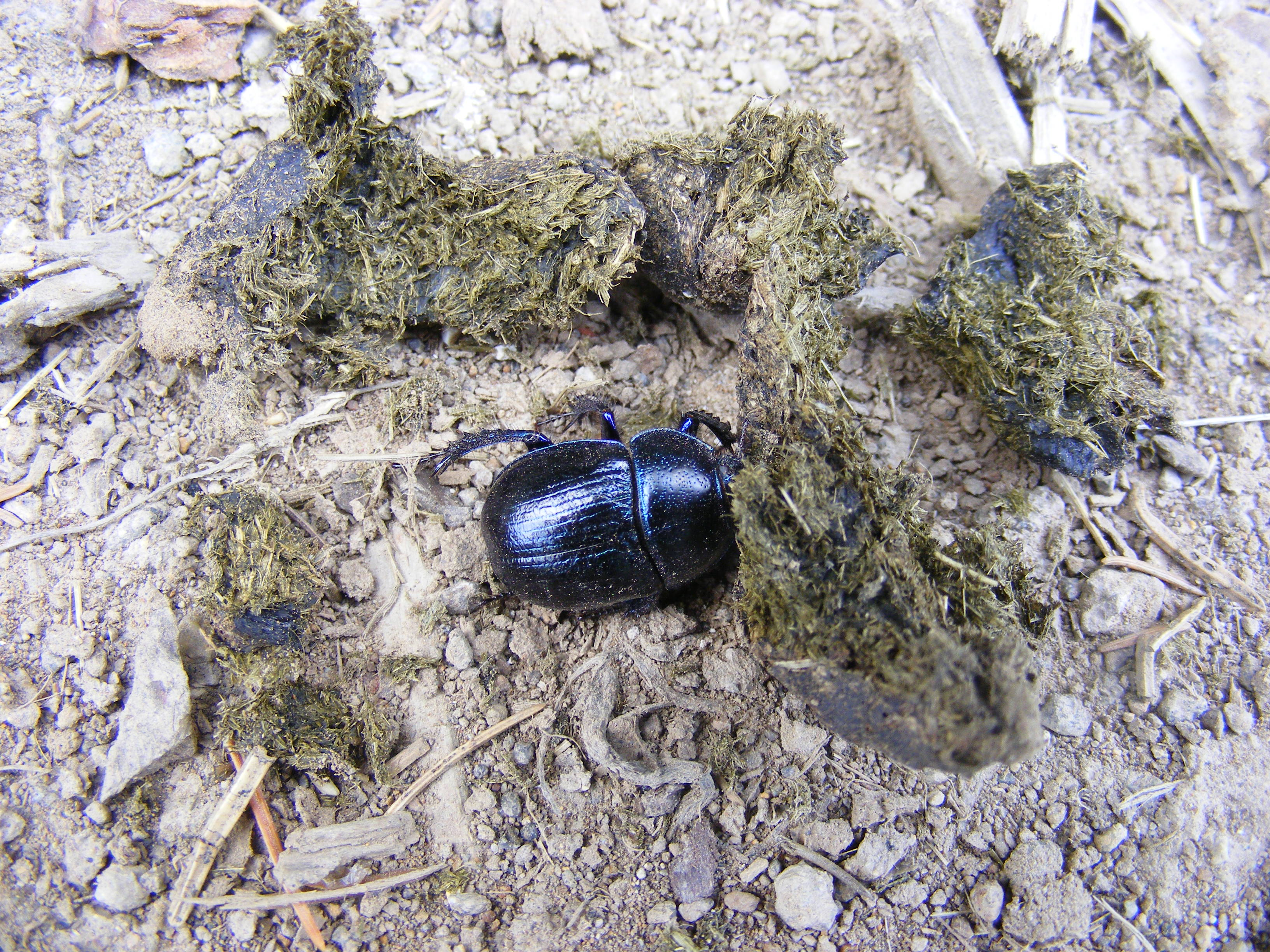 Anoplotrupes stercorosus